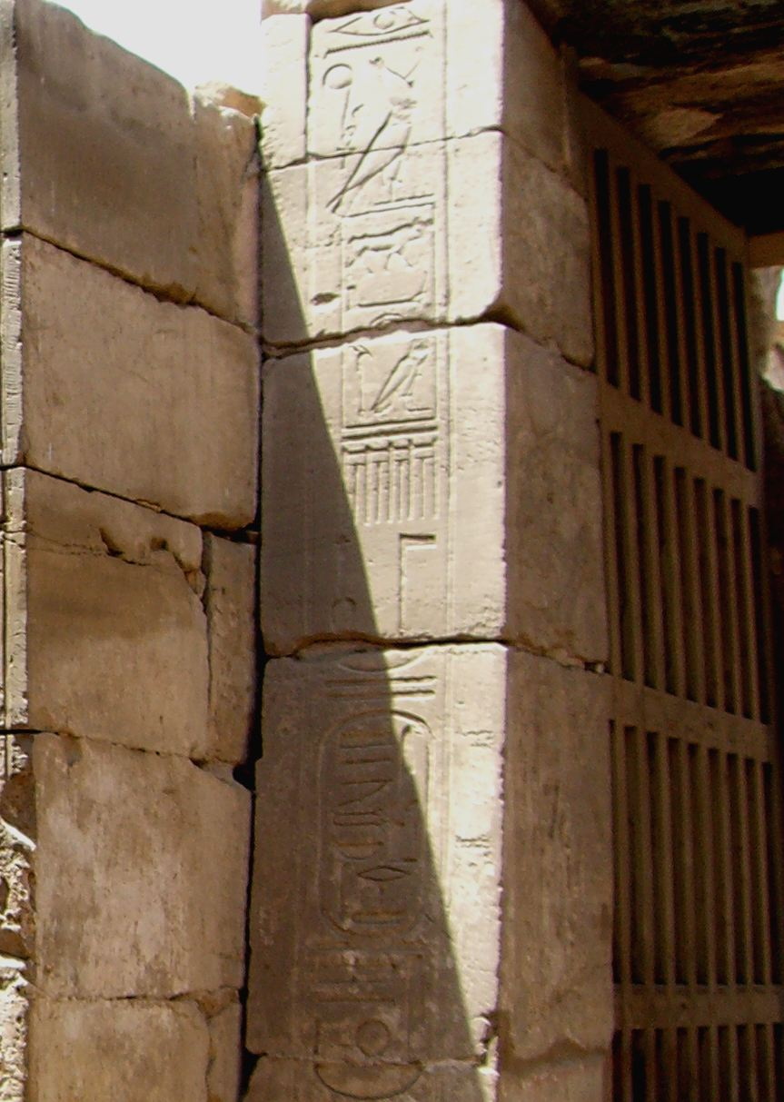 The royal titulary of Takelot II on the left side of the courtyard's door of Karnak temple of Ptah.